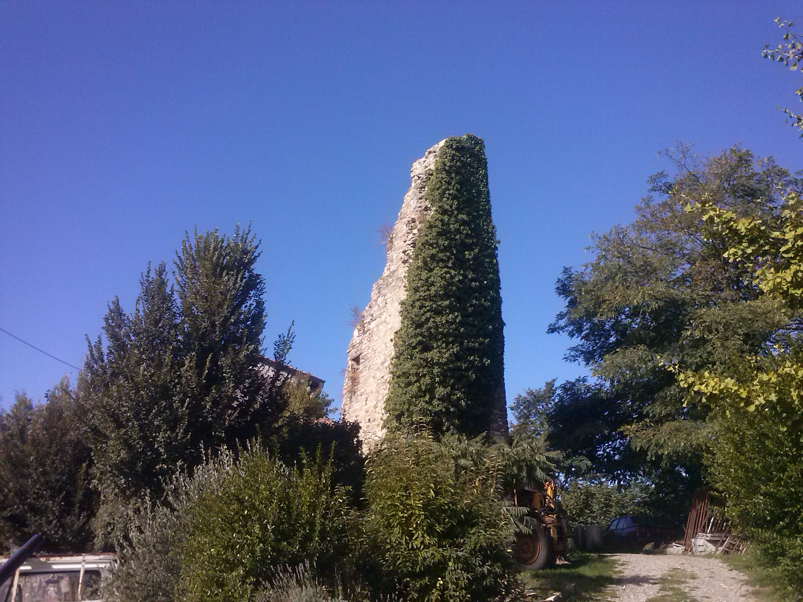 Ruins of Castle of Montecanino, municipality of Piozzano (Piacenza, Italy)